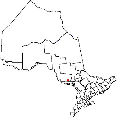 Map of Elliot Lake, Ontario